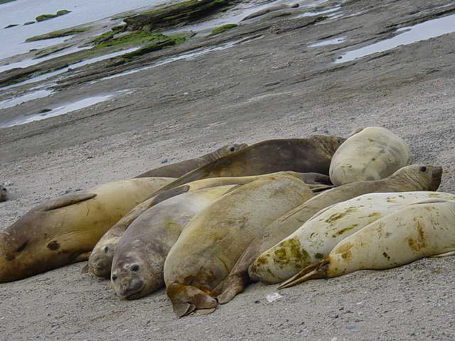 Earless seals from Puerto Madryn, Argentina. More pictures of Puerto-Madrew and Argentina at